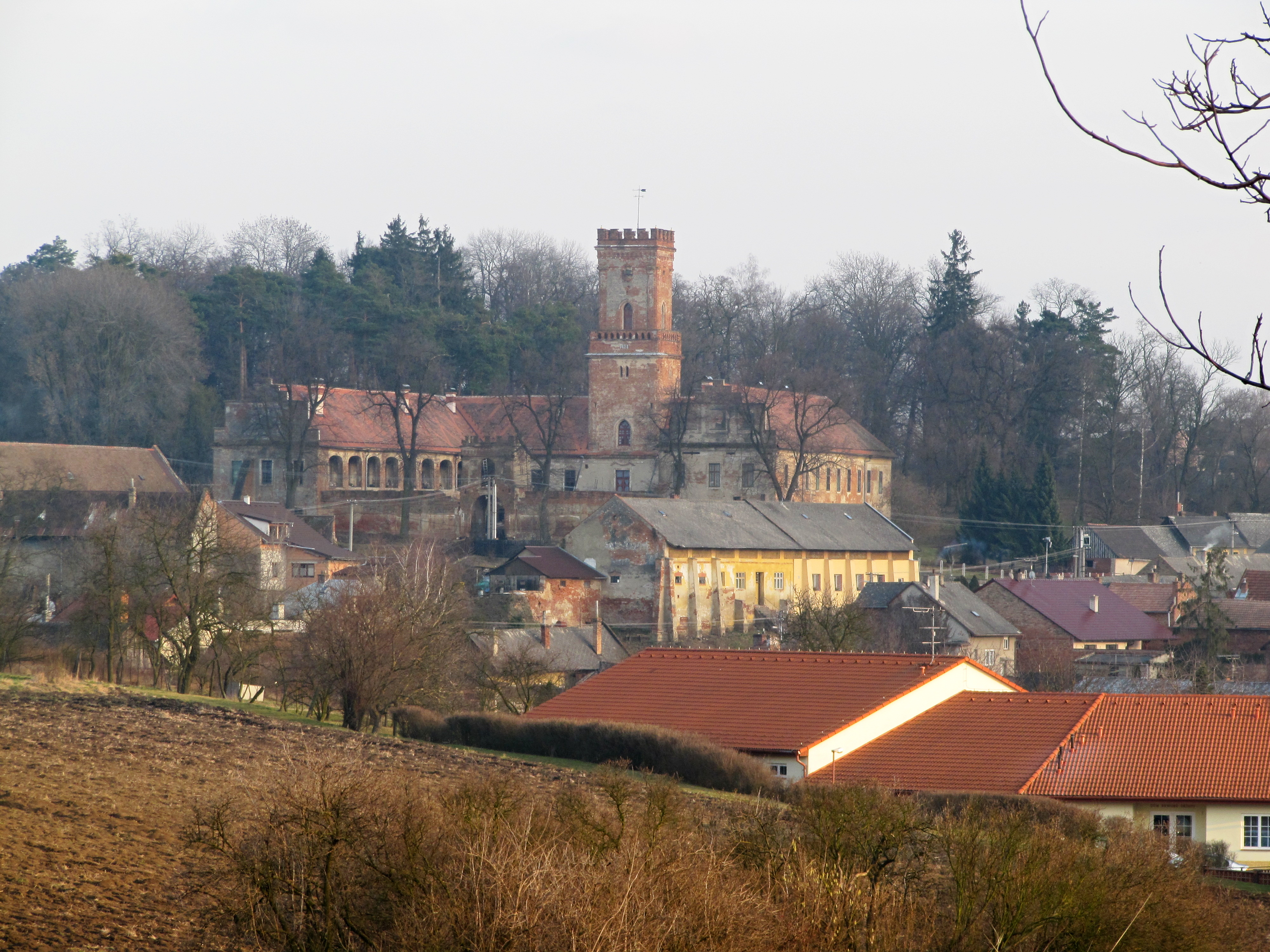 Dřínov, Kroměříž District, Czech Republic. Castle.